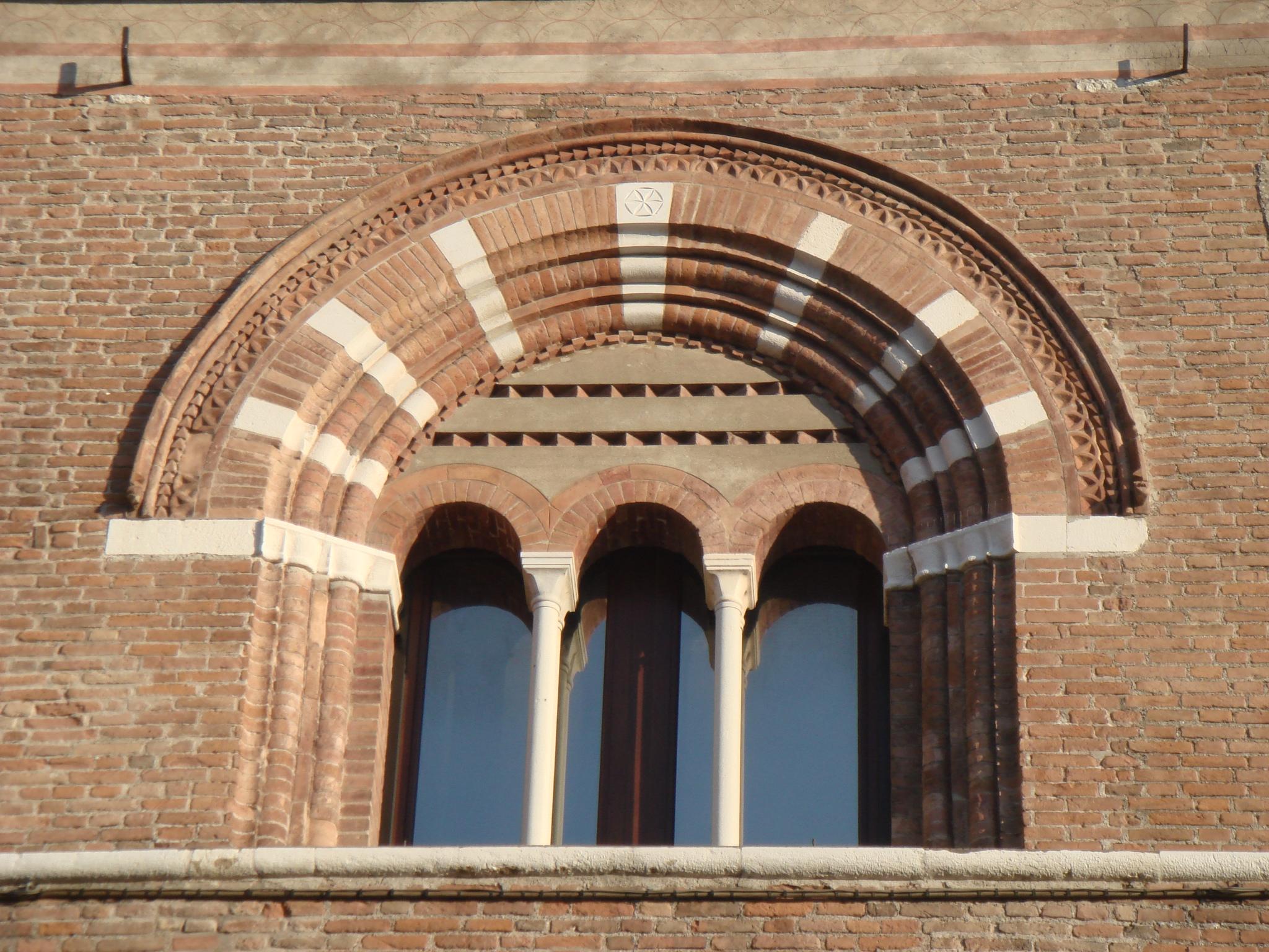 Broletto, the ancient City Hall, in Brescia. It was originally built in Romanesque style. Picture by Stefano Bolognini.